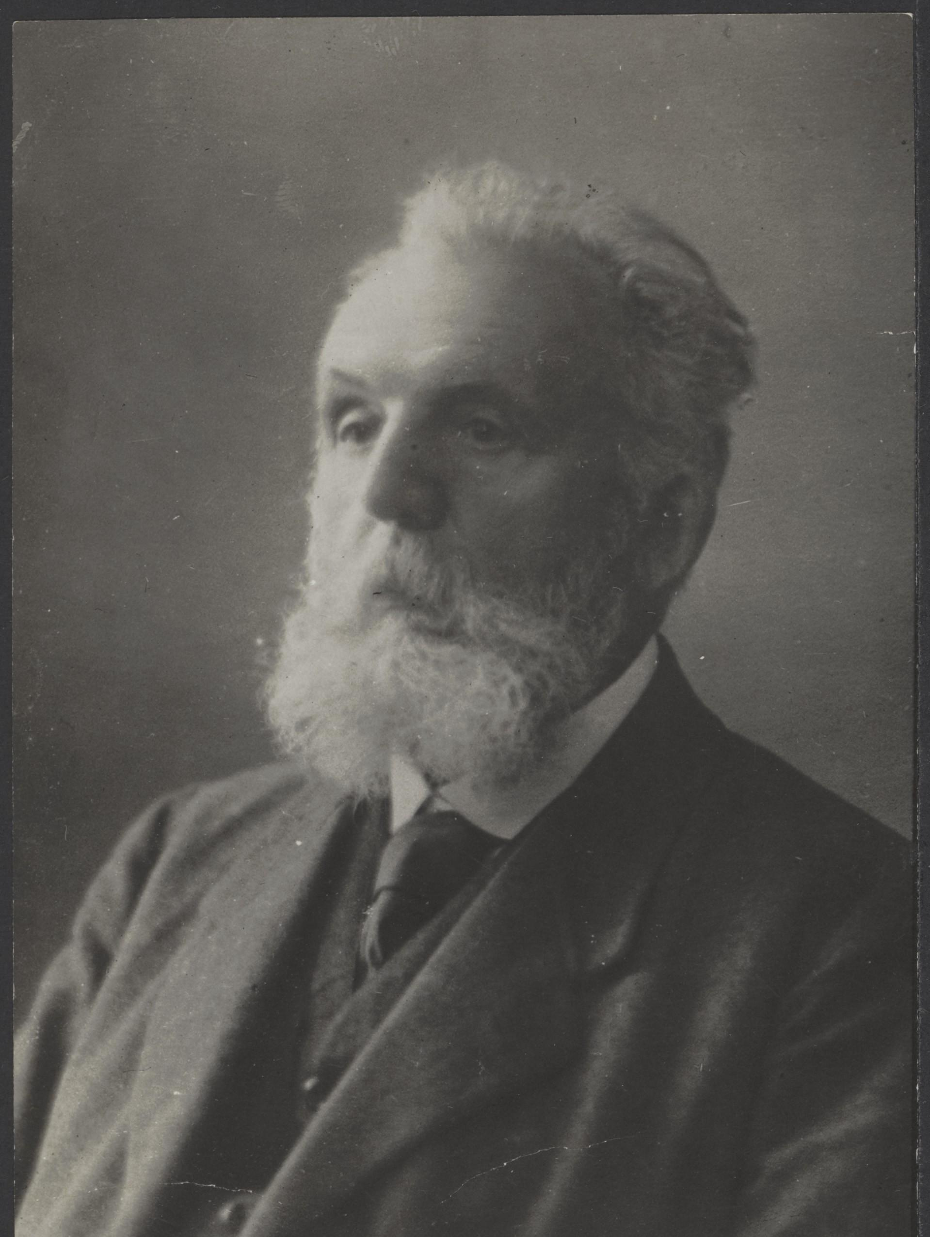 Johann Karl Ludwig Martin (1851–1942), German geologist, former director of the Museum of Geology and Mineralogy in Leiden (the Netherlands)